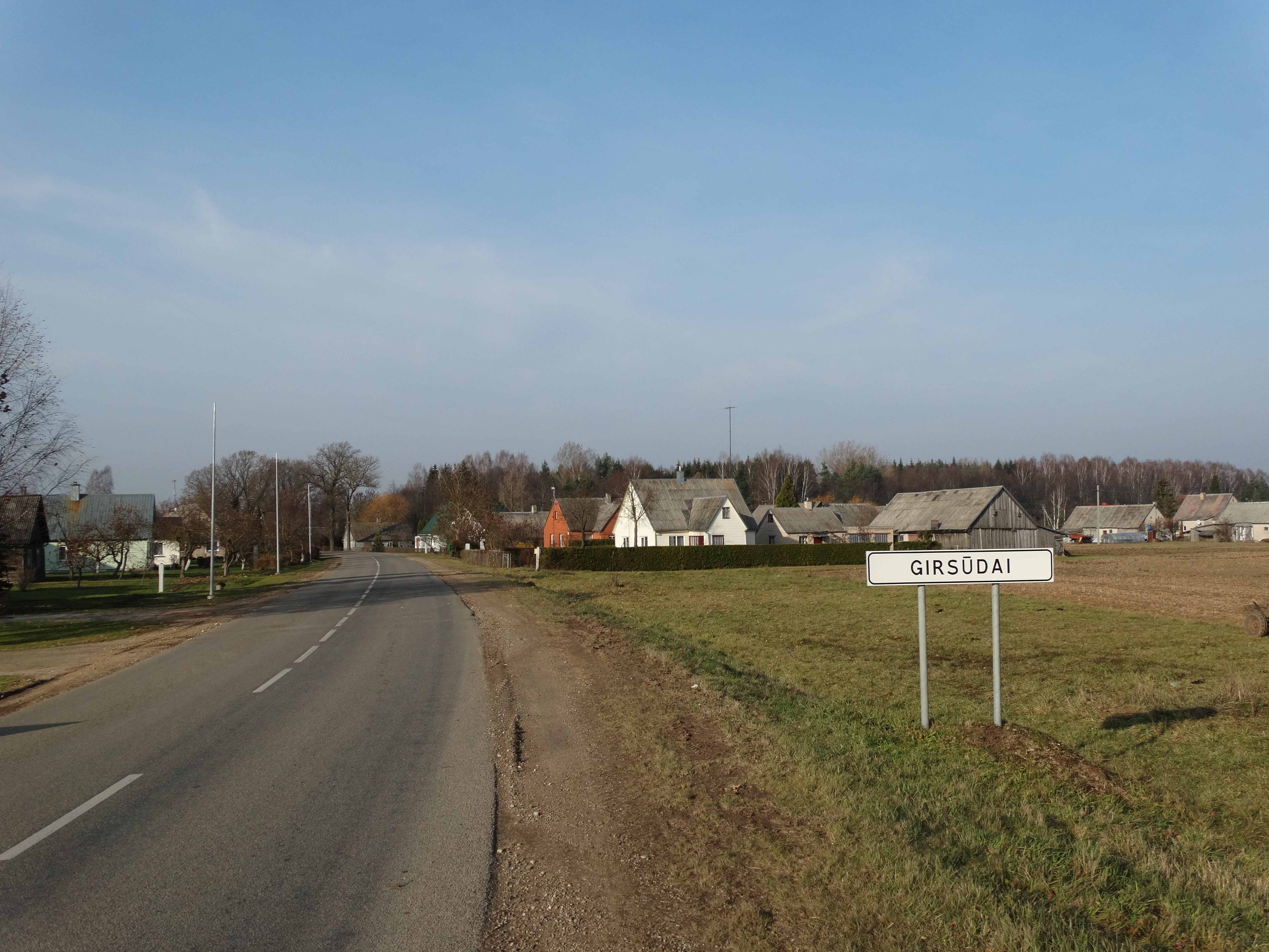 Girsūdai, Pasvalys District, Lithuania